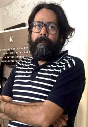 Ashim Ahluwalia at the screening of Daddy.